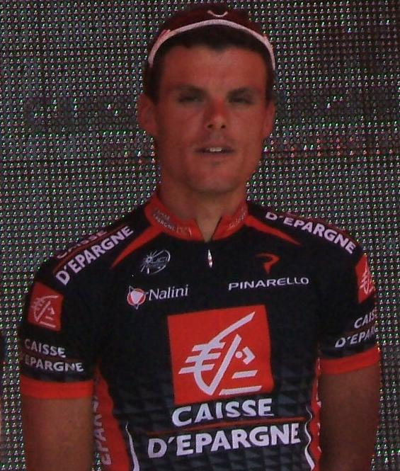 Named cyclist at the en:2009 Tour Down Under team presentation